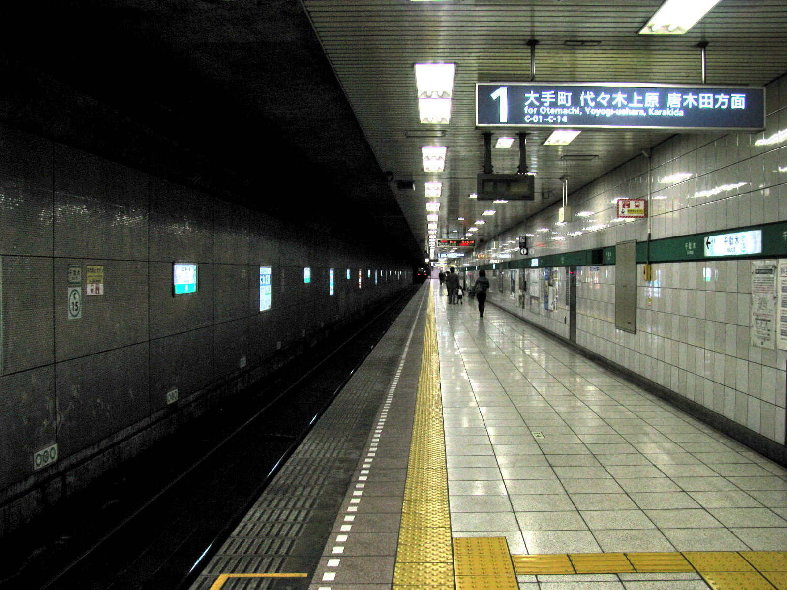 platform at Sendaki station